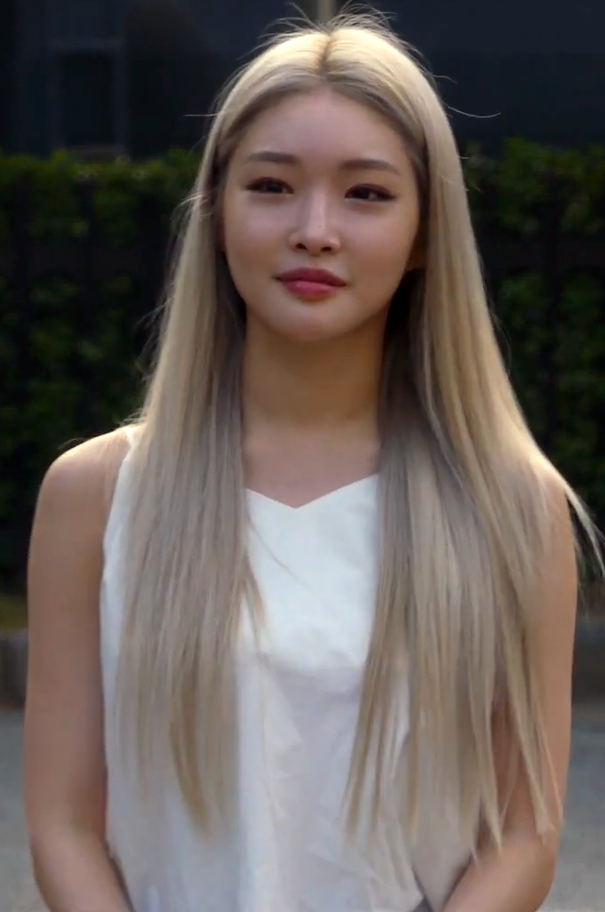 Chungha arriving at a rehearsal for KBS' Music Bank (July 19, 2019)